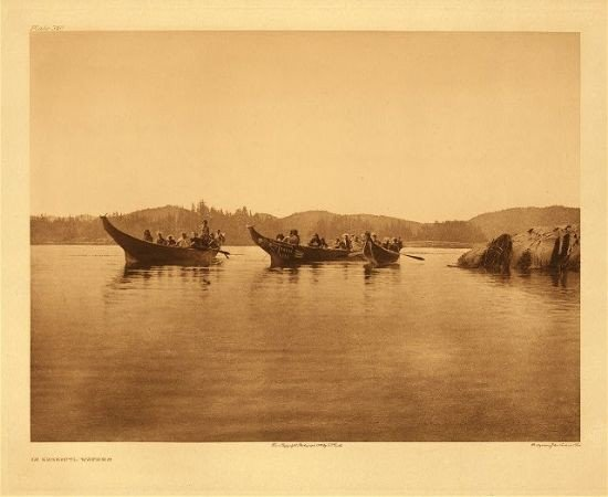 Kwakwak'wakw canoe welcoming with ocean going canoes.